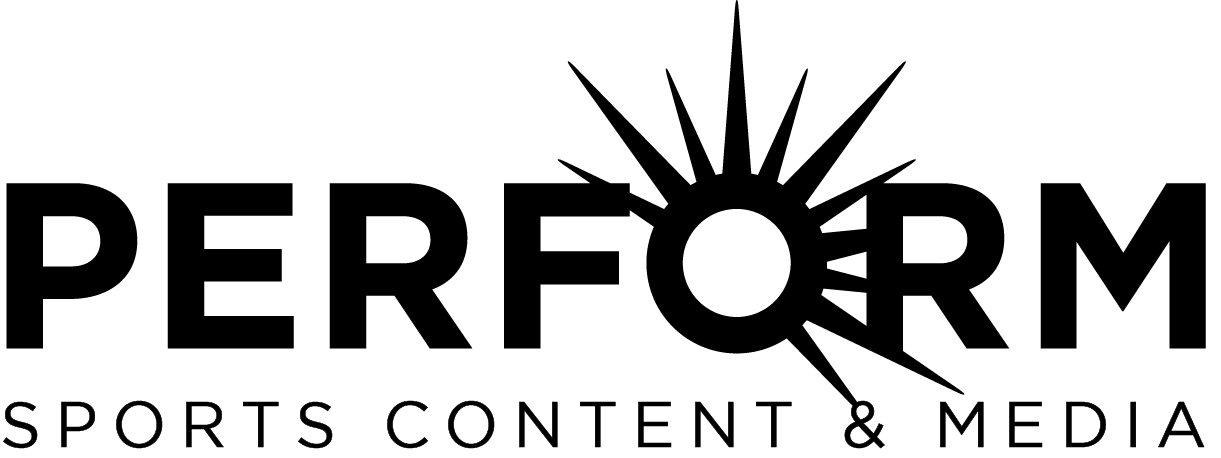 Perform Group Logo